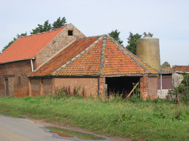 Little Catwick, East Riding of Yorkshire, England.Looking north to the farm buildings in Little Catwick.It's all farmland in this grid square. Catwick is in the next grid square north.